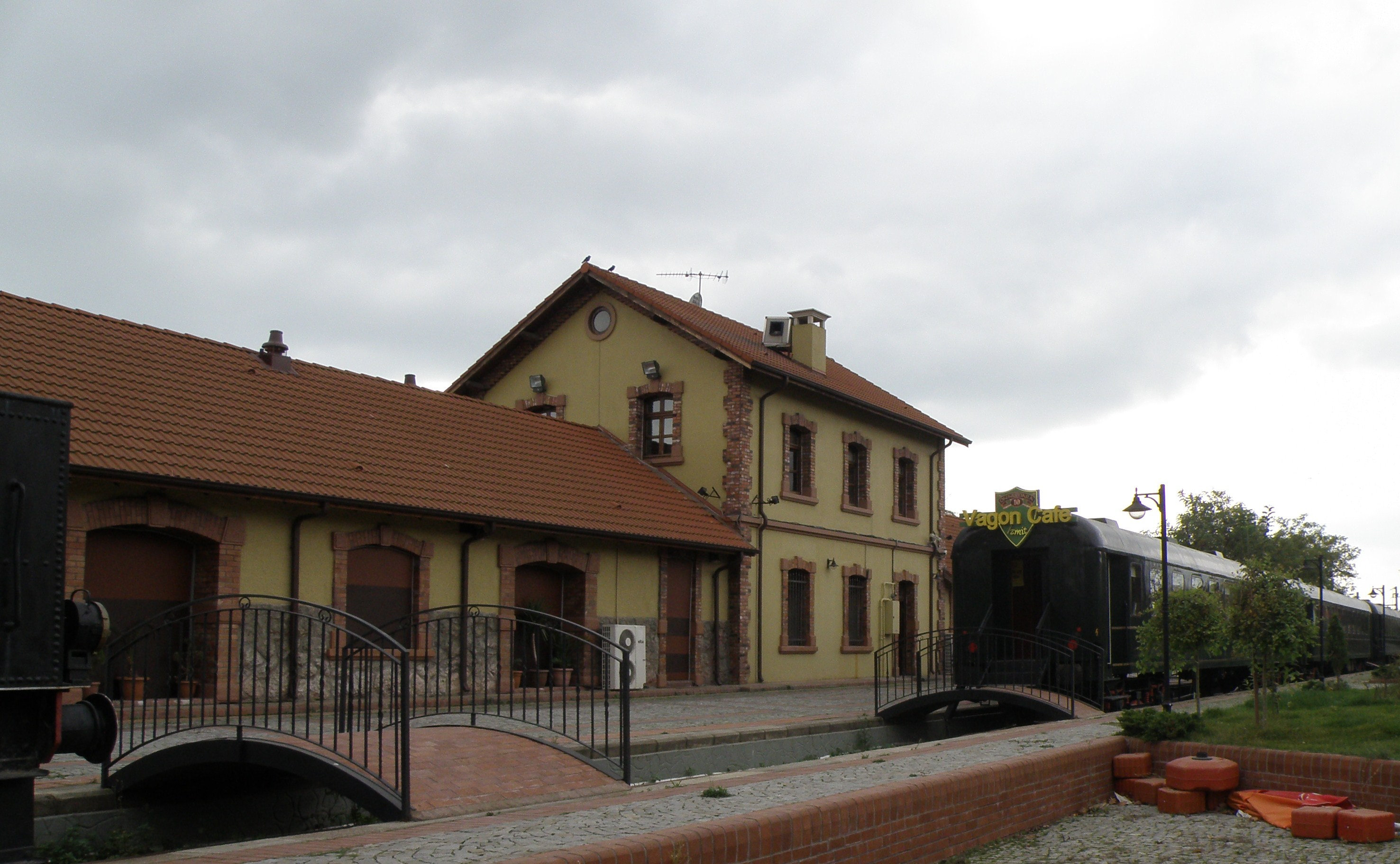 old railway station & (restored) *©Abdullah Kiyga